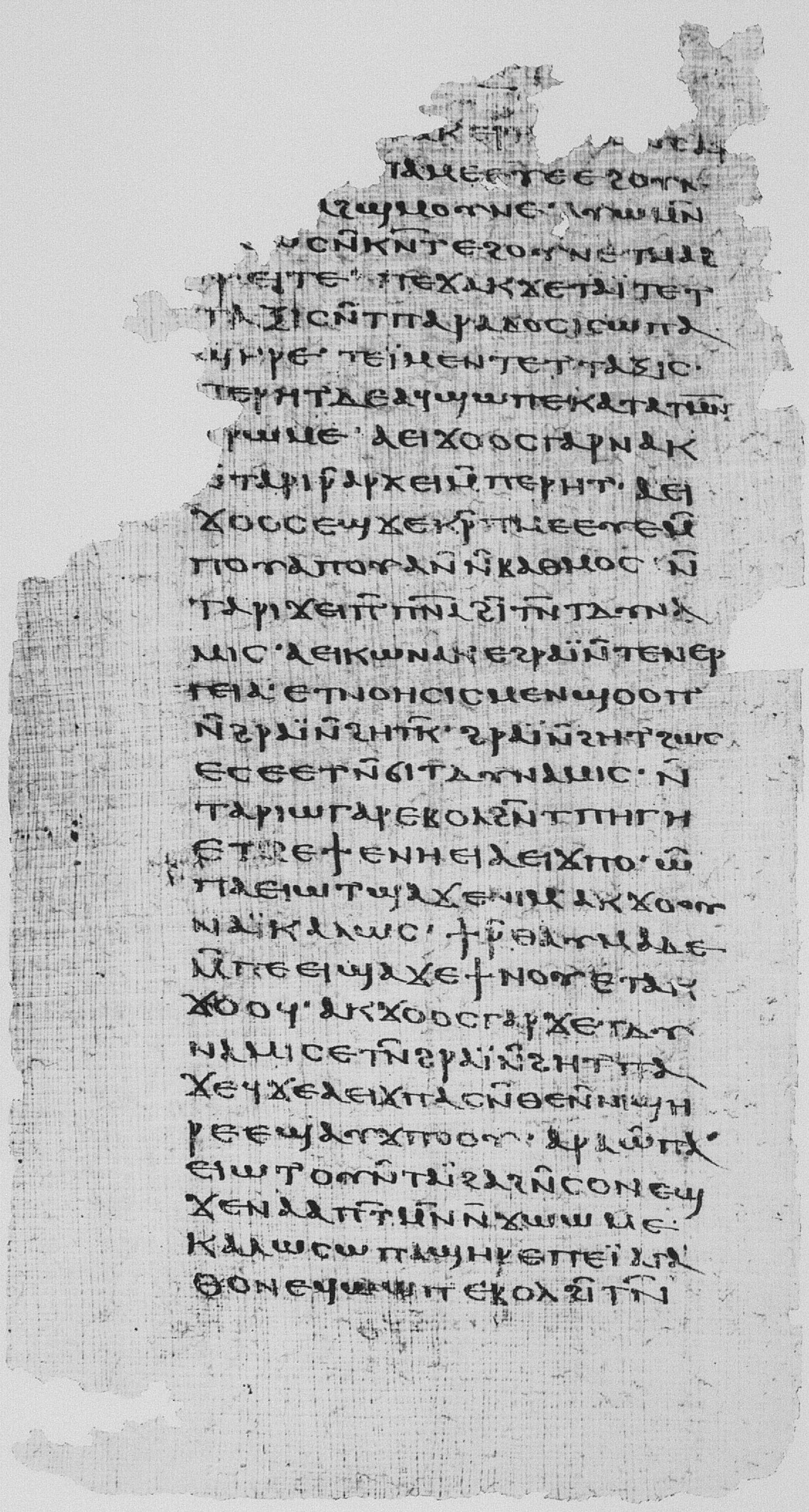 The beginning of a Hermetic treatise in Coptic in the manuscript Cairo, Coptic Museum, Nag Hammadi VI, page 52.